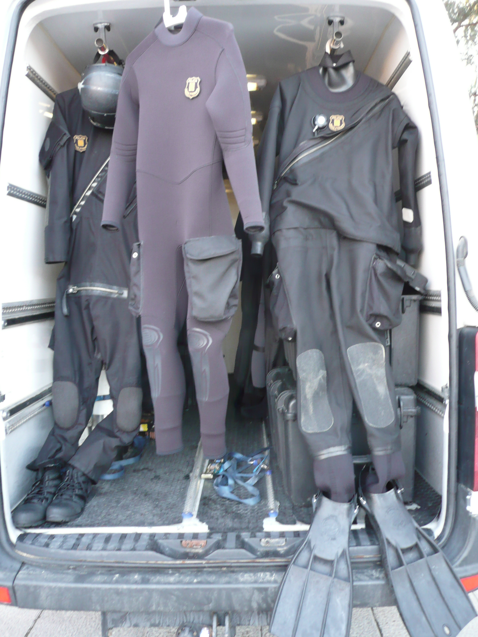 On the left a diving suit neoprene for sane and/or warm water. On the right a dry diving suit for contaminated and/or cold water.